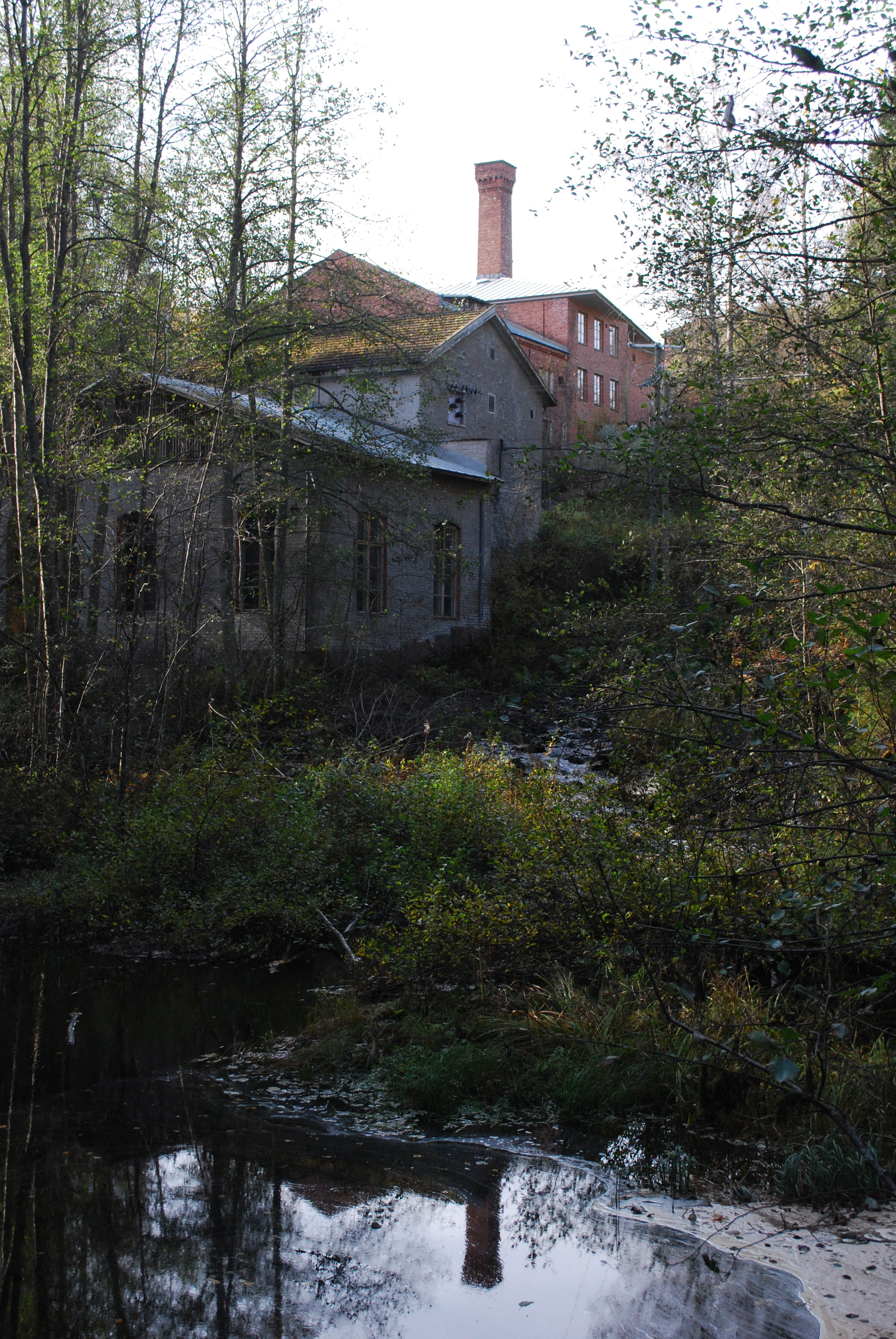 Juupajoki ravine. Shoe museum in the background